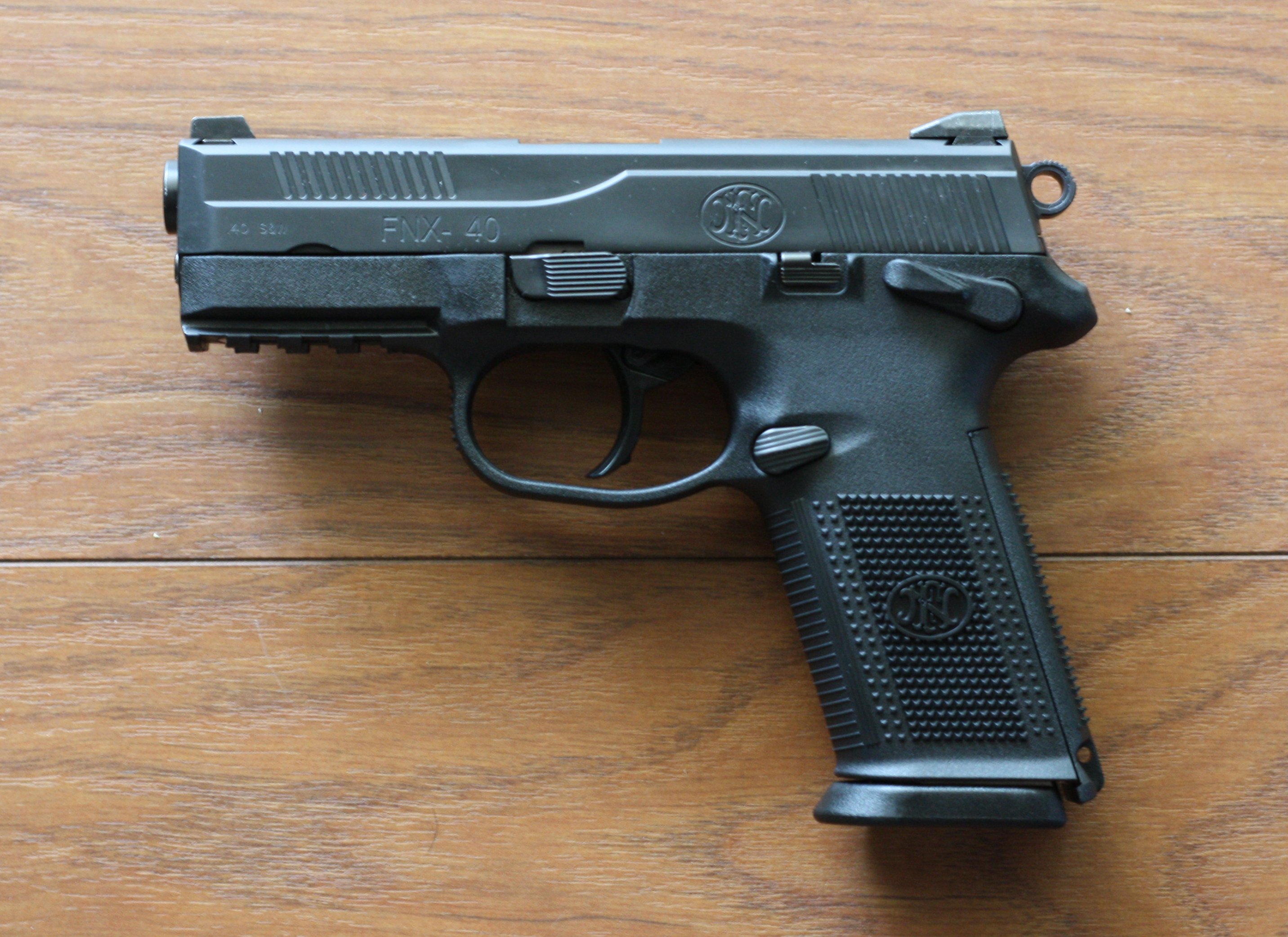 FN Herstal FNX-40 autoloading pistol. Photograph of the left side, on safe.